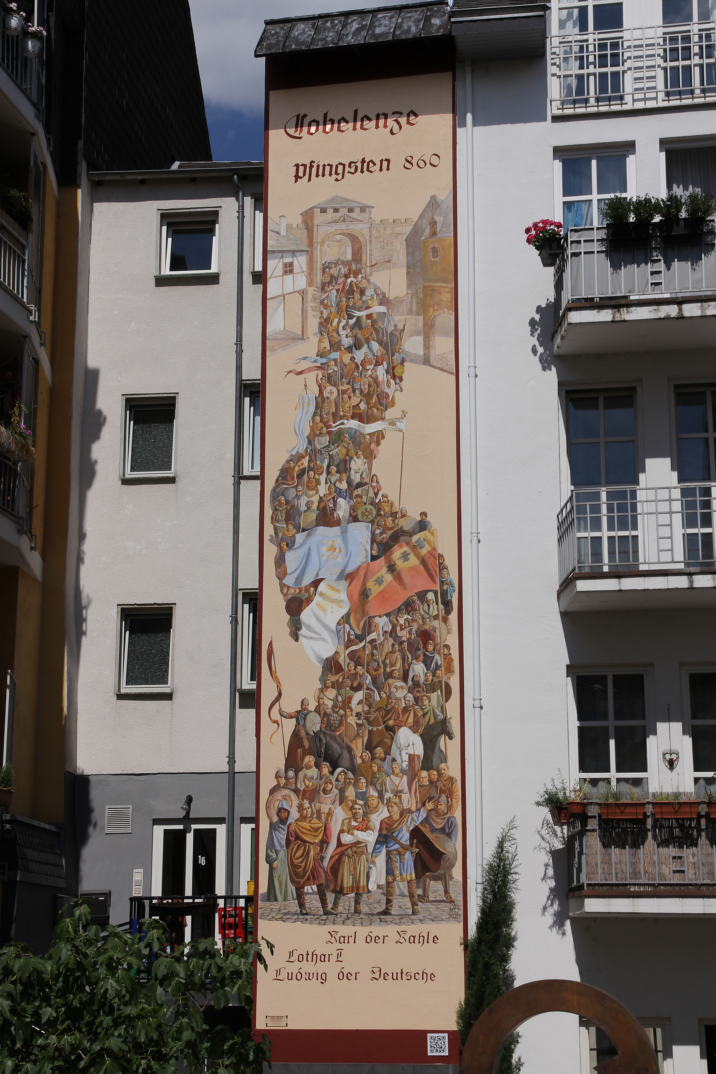 Mural in Koblenz